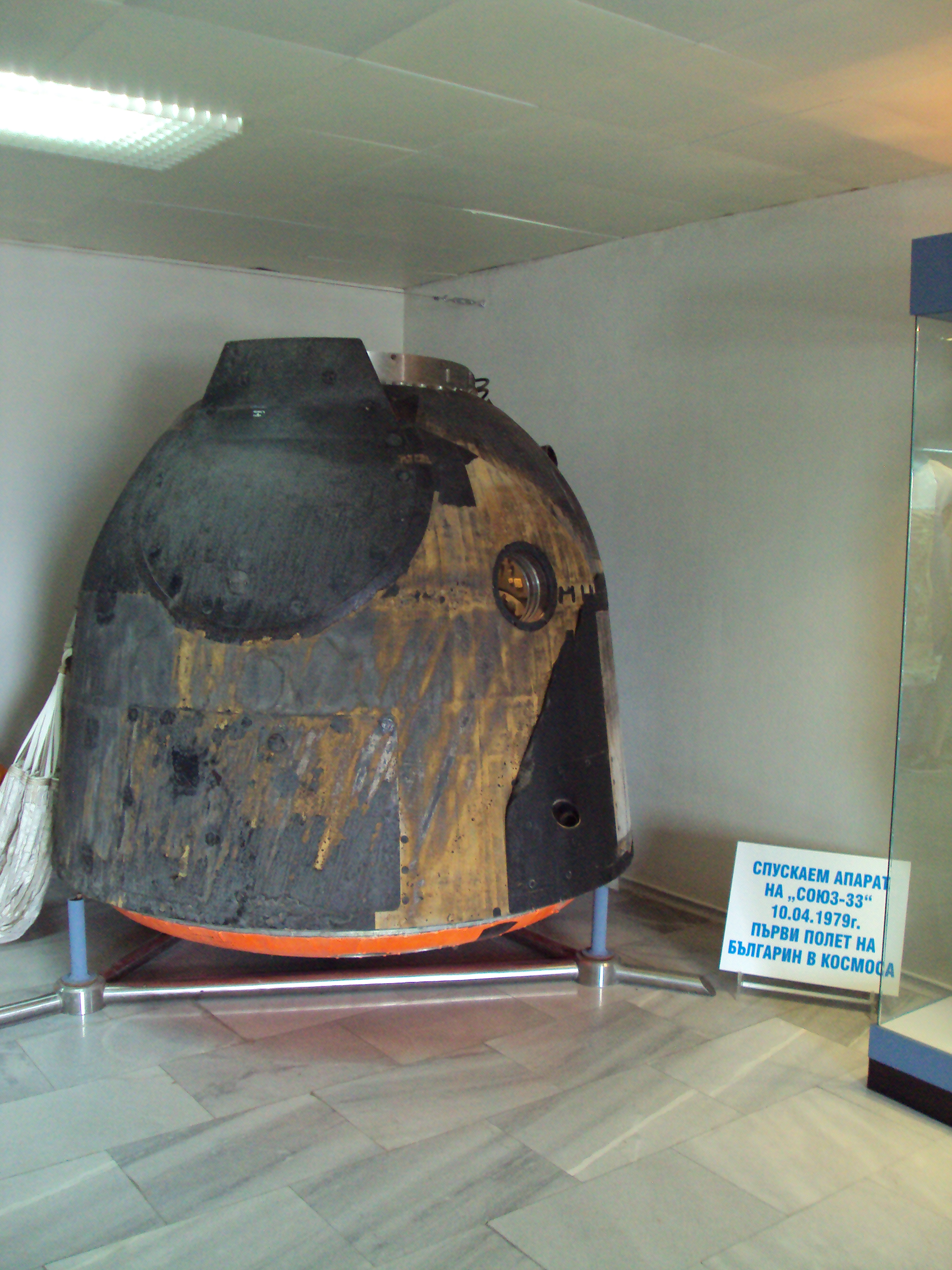 Aviation Museum in Plovdiv